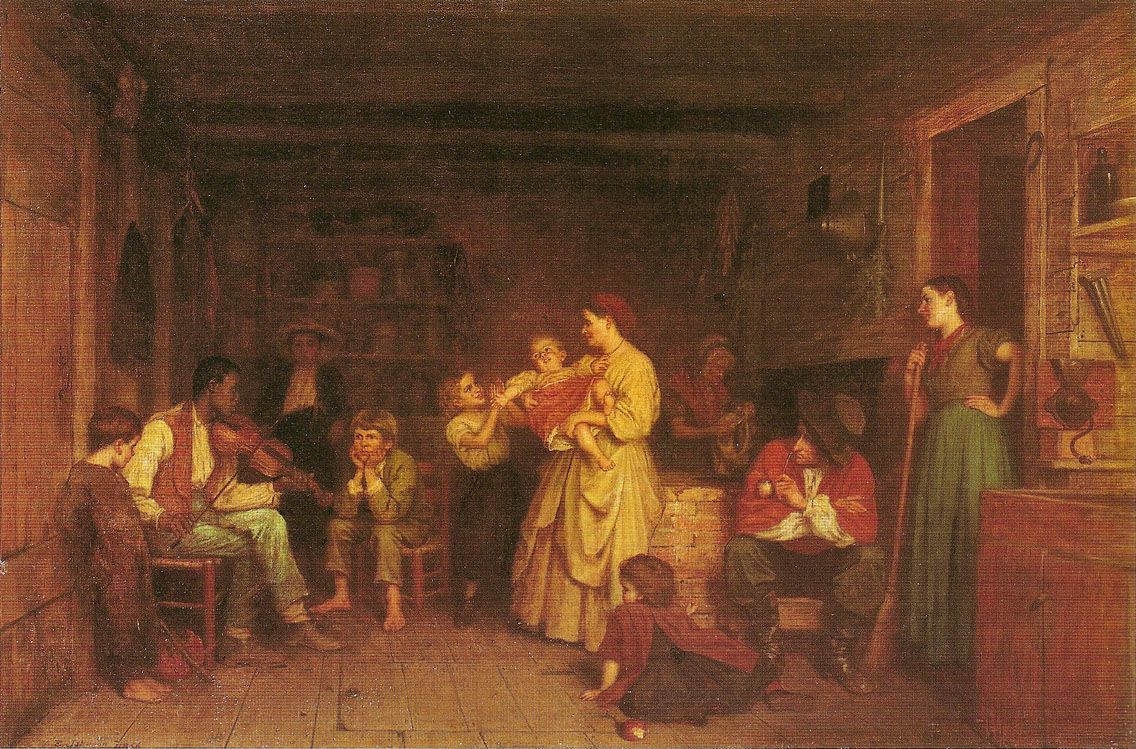 Eastman Johnson - Fiddling His Way - Oil on canvas - 24.35 x 36.25 in - 1866 - Scanned from Eastman Johnson: Painting America - fig 78 pg 149